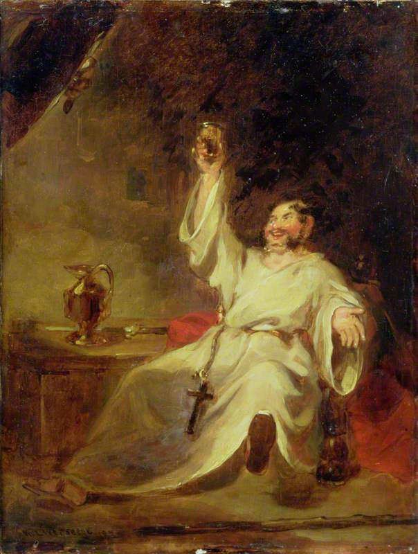 Photograph of Friar Tuck by Henry Leverseege